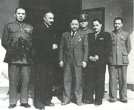 Ehmetjan Qasimi (left 2), Abdulkerim Abbas (front left 4) in the home of Sun Fo (left 3) in Nanjing.